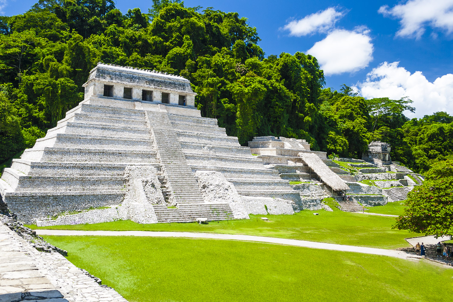 Palenque ( Chiapas ). Temple of inscriptions